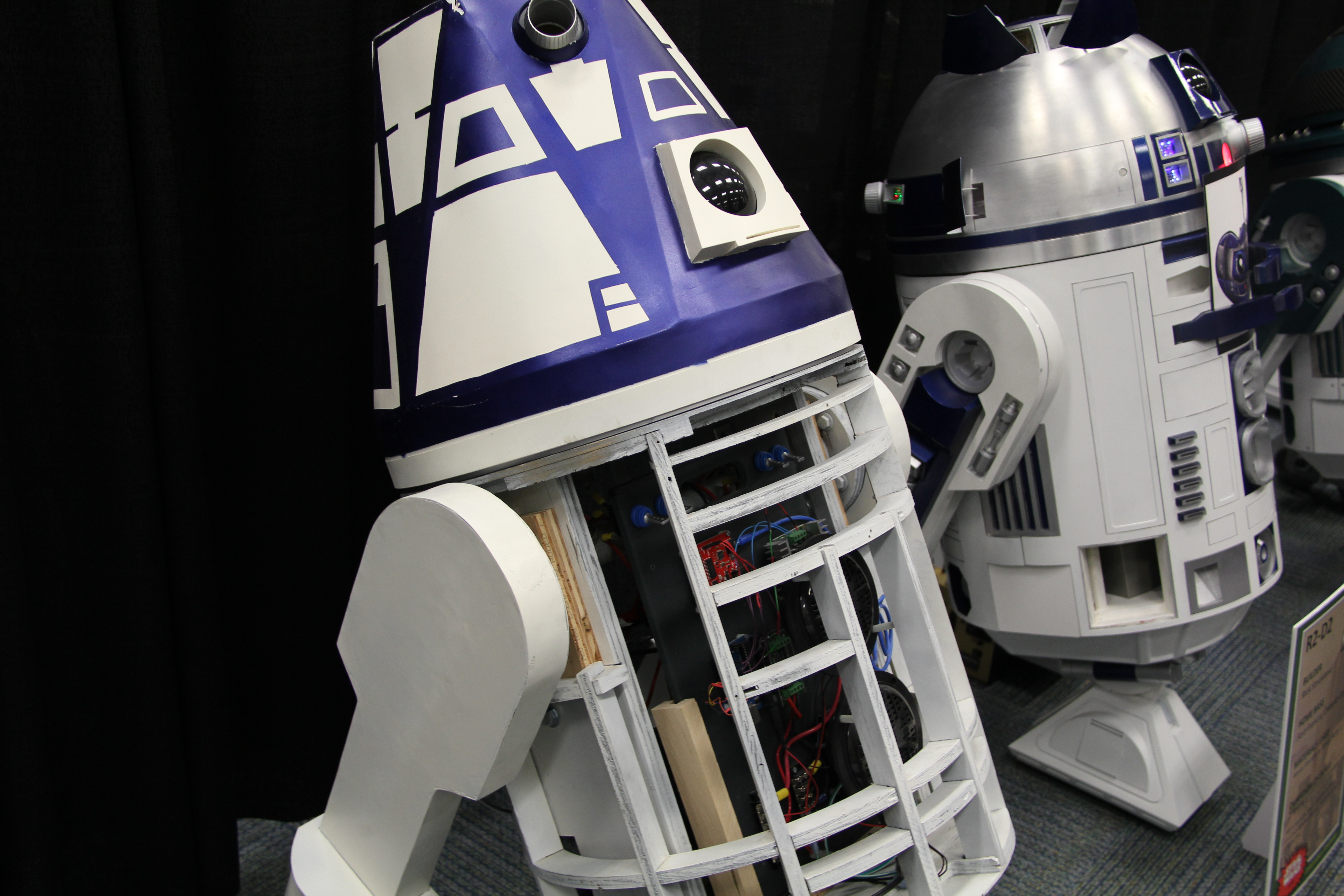 SWCA - From Droid Builder's Club Room [4] Star Wars Celebration in Anaheim, April 2015.